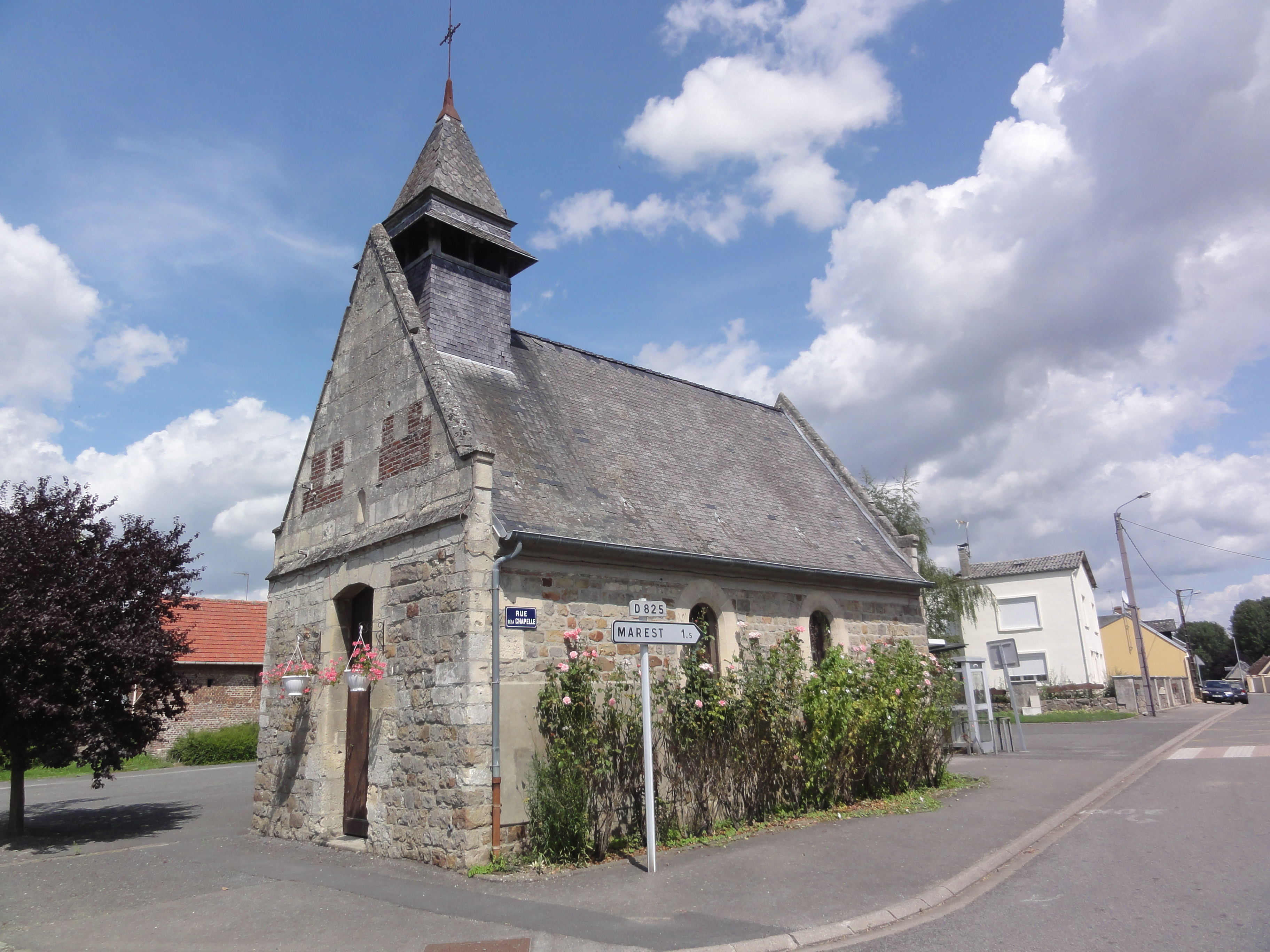 Marest-Dampcourt (Aisne) chapelle à Dampcourt